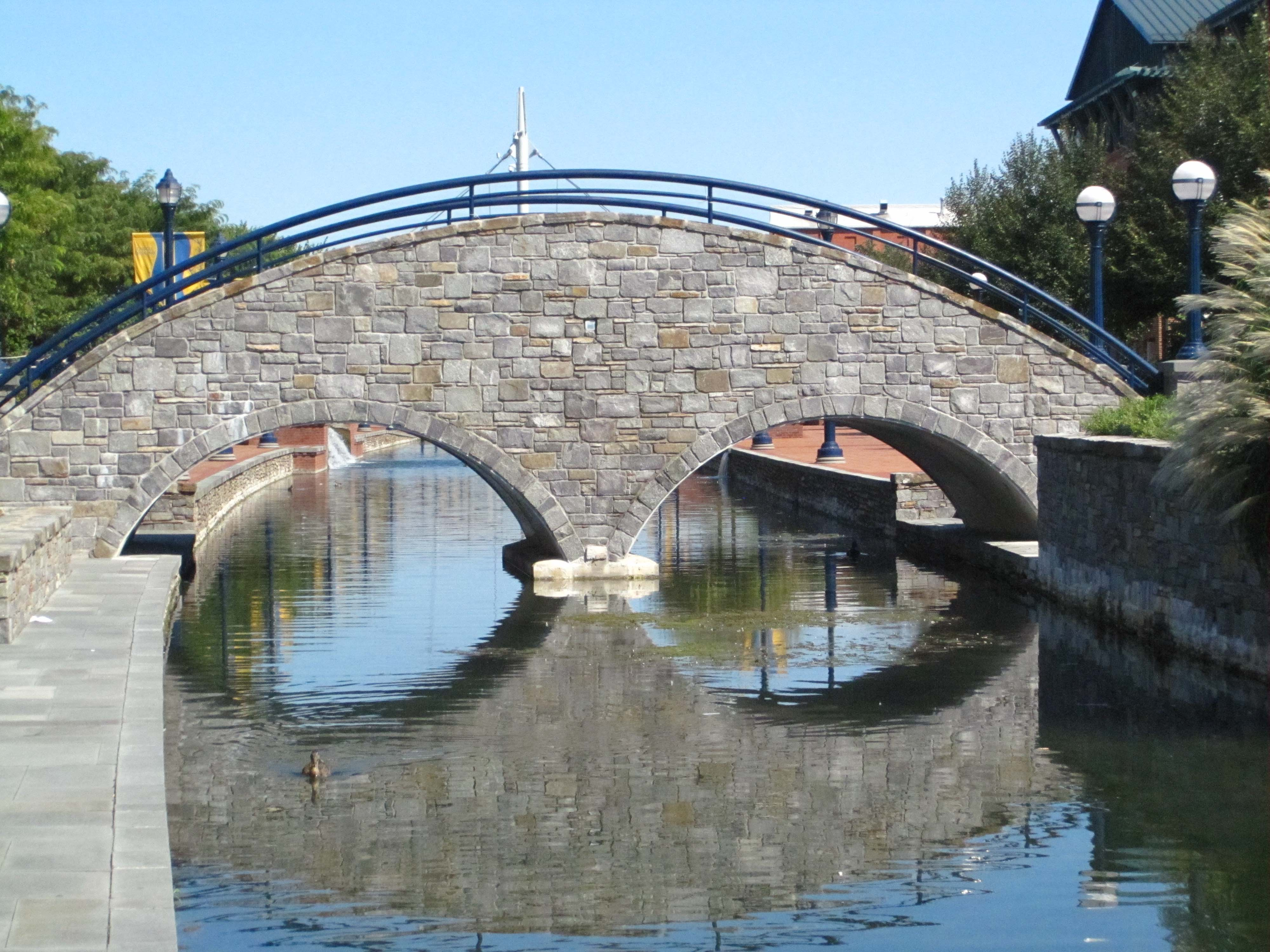 Bridge Reflections on the Carroll Creek